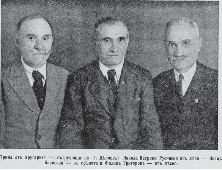 Nikola Rusinski, Ivan Bikovski, Filip Grigorov